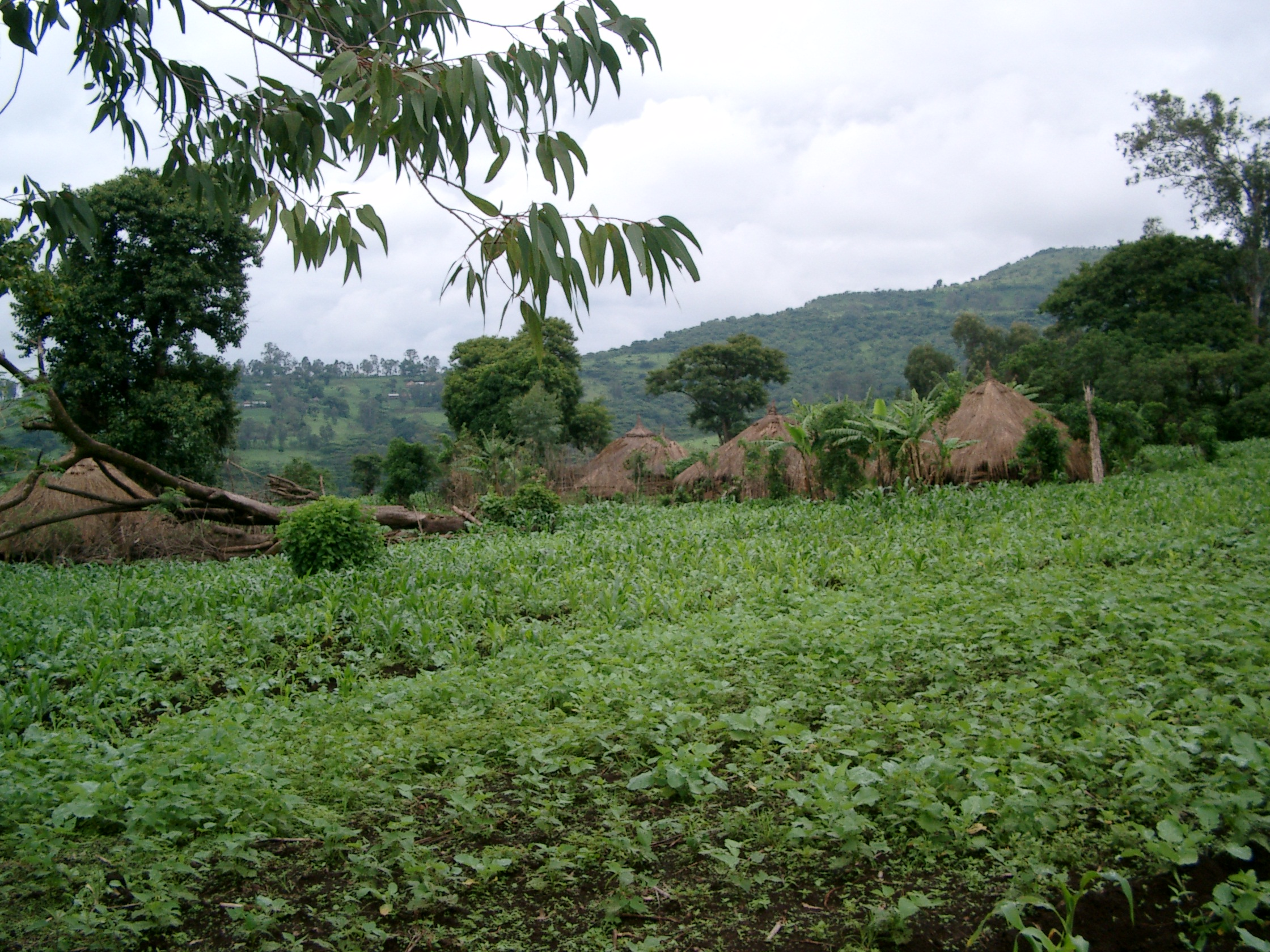 photographed by Hartmut Schönherr